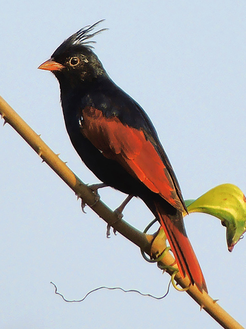 Crested Bunting (Melophus lathami)